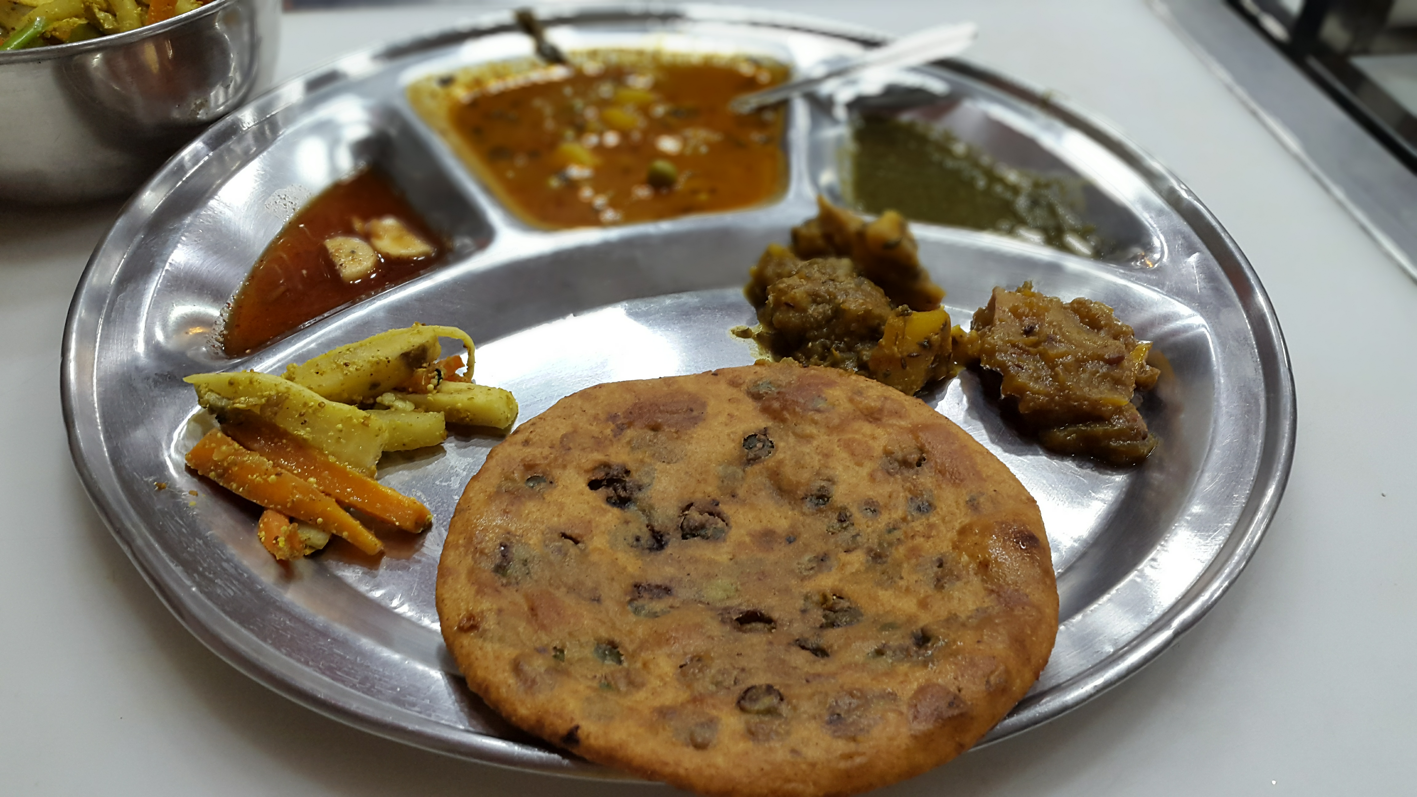 Matar wala Parantha, Paranthe wali gali, chandni chowk, Delhi